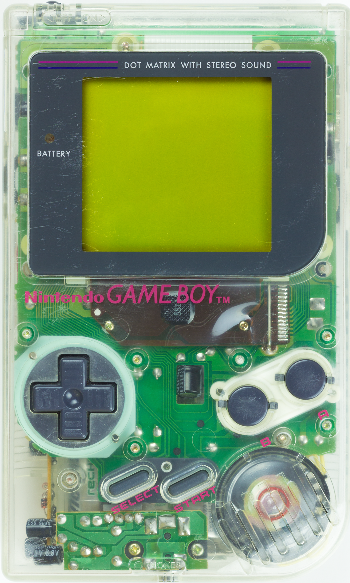 This is the Transparent edition of the Play It Loud! series of Game Boys, This one was only released in North America.